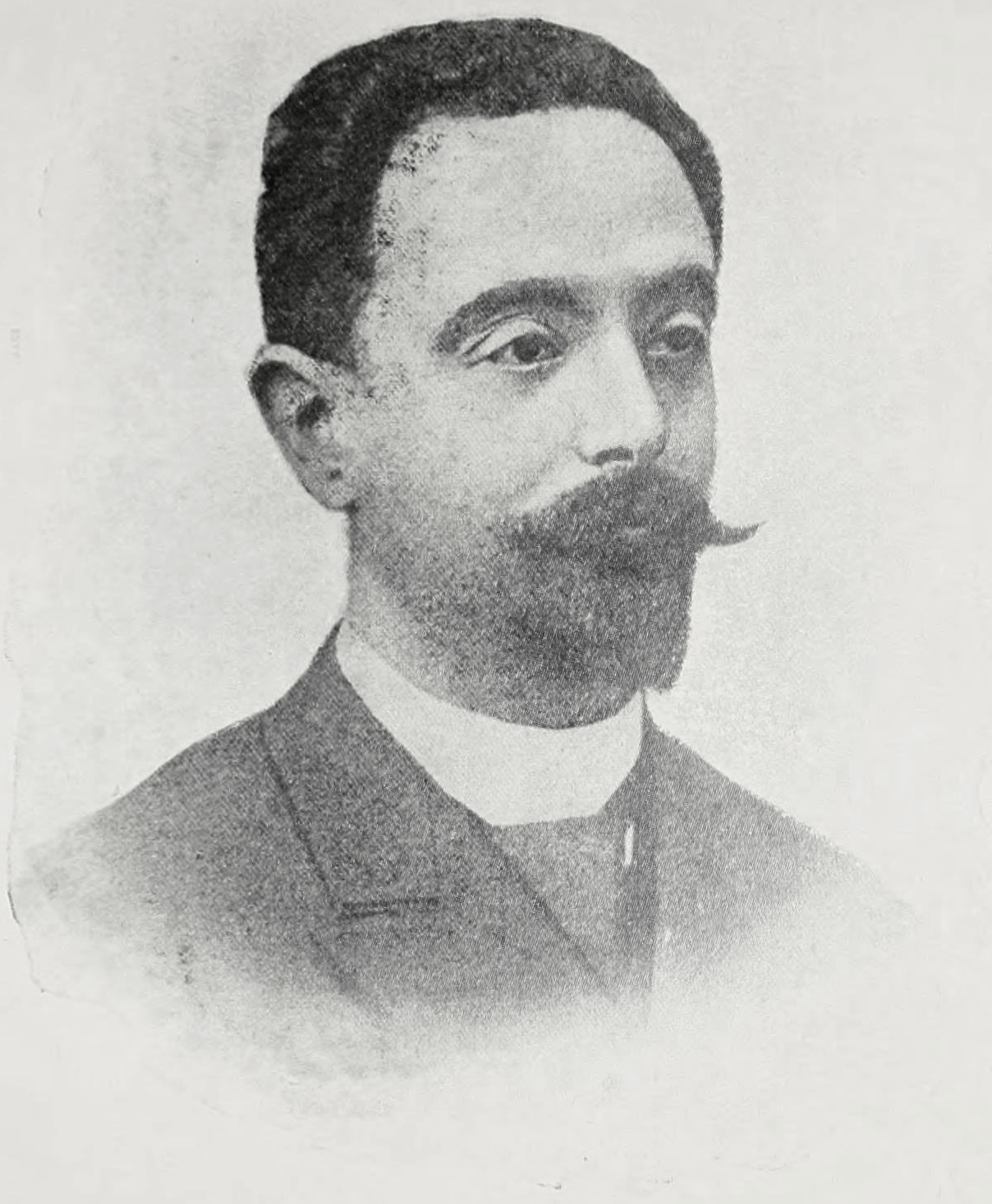 Carlo Munier, from the 1914 book "The Guitar and Mandolin" by Philip J. Bone.